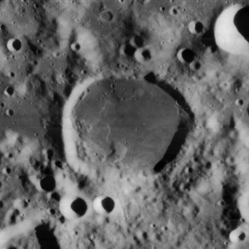 Fourier A crater, on the moon.